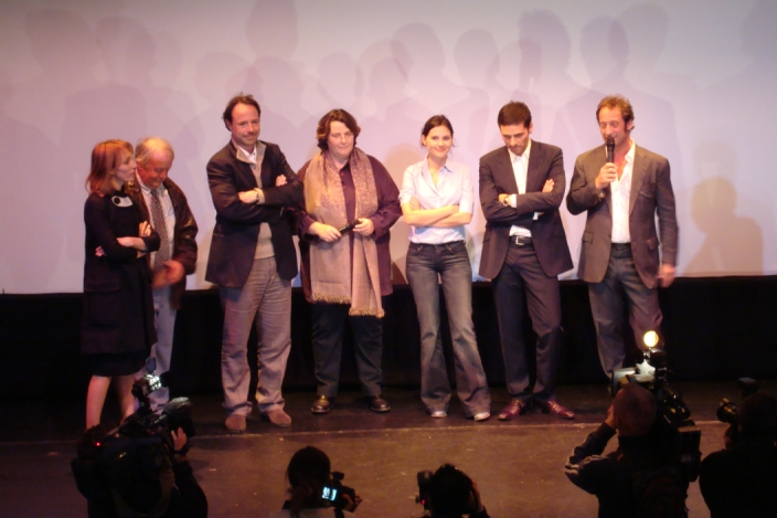 Premiere of the film Mes Amis, Mes Amours, at the Institut Français, London, 18th June 2008. From left to right: Mar Sodupe, Richard Syms, Marc Lévy, Lorraine Lévy, Virginie Ledoyen, Pascal Elbé, Vincent Lindon